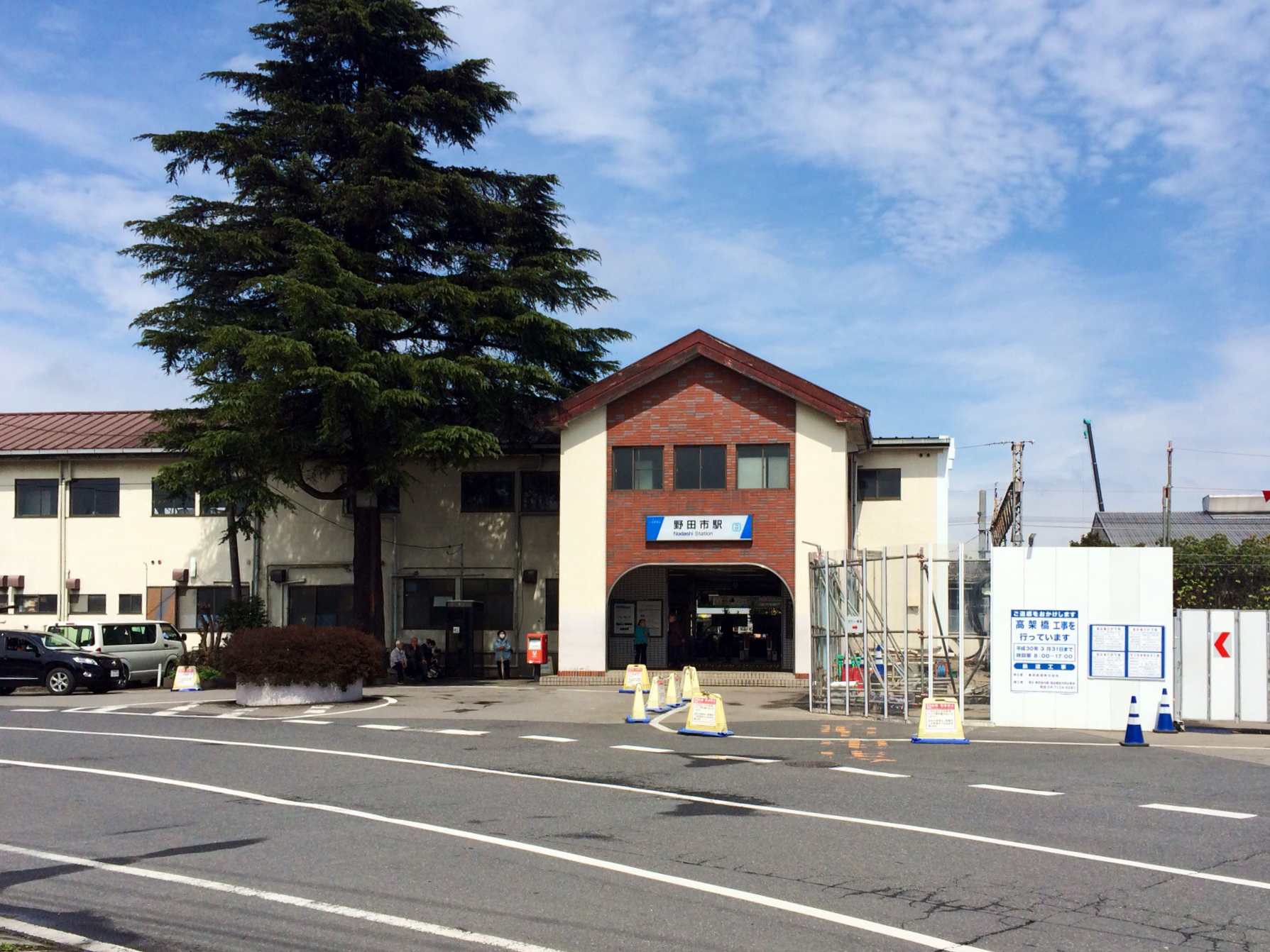 Nodashi Station on the Tobu Urban Park Line in Chiba Prefecture, Japan